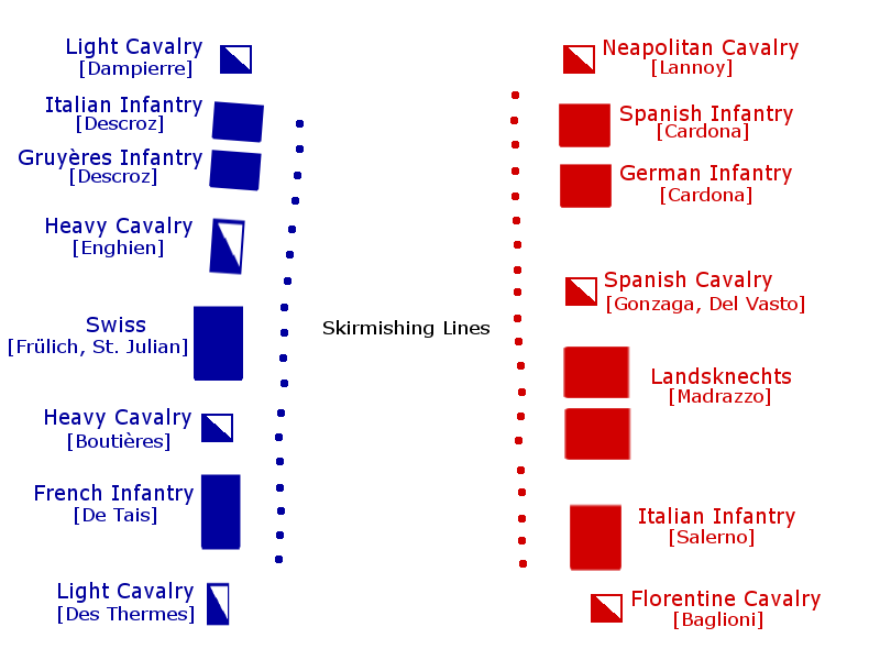 Initial dispositions at the Battle of Ceresole; French troops in blue, Imperial troops in red.